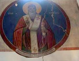 Icon in St. Demetrious Church in Zrnovci, Macedonia